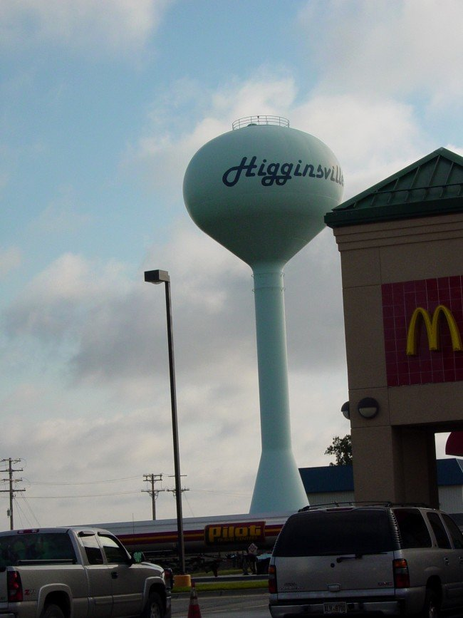 A photo of Higginsville water tower, taken by me. Twin Jalanugraha